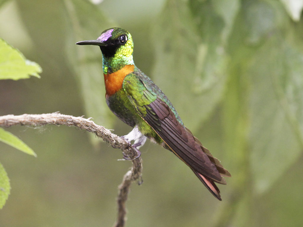 A Gould's Jewelfront near Amazonia Lodge, Manu National Park, Peru.